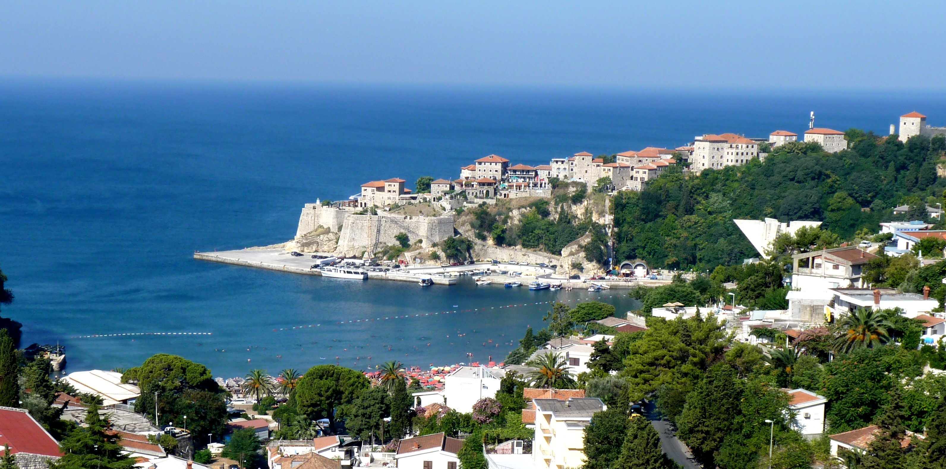 Panorama of Ulcinj in Montenegro.